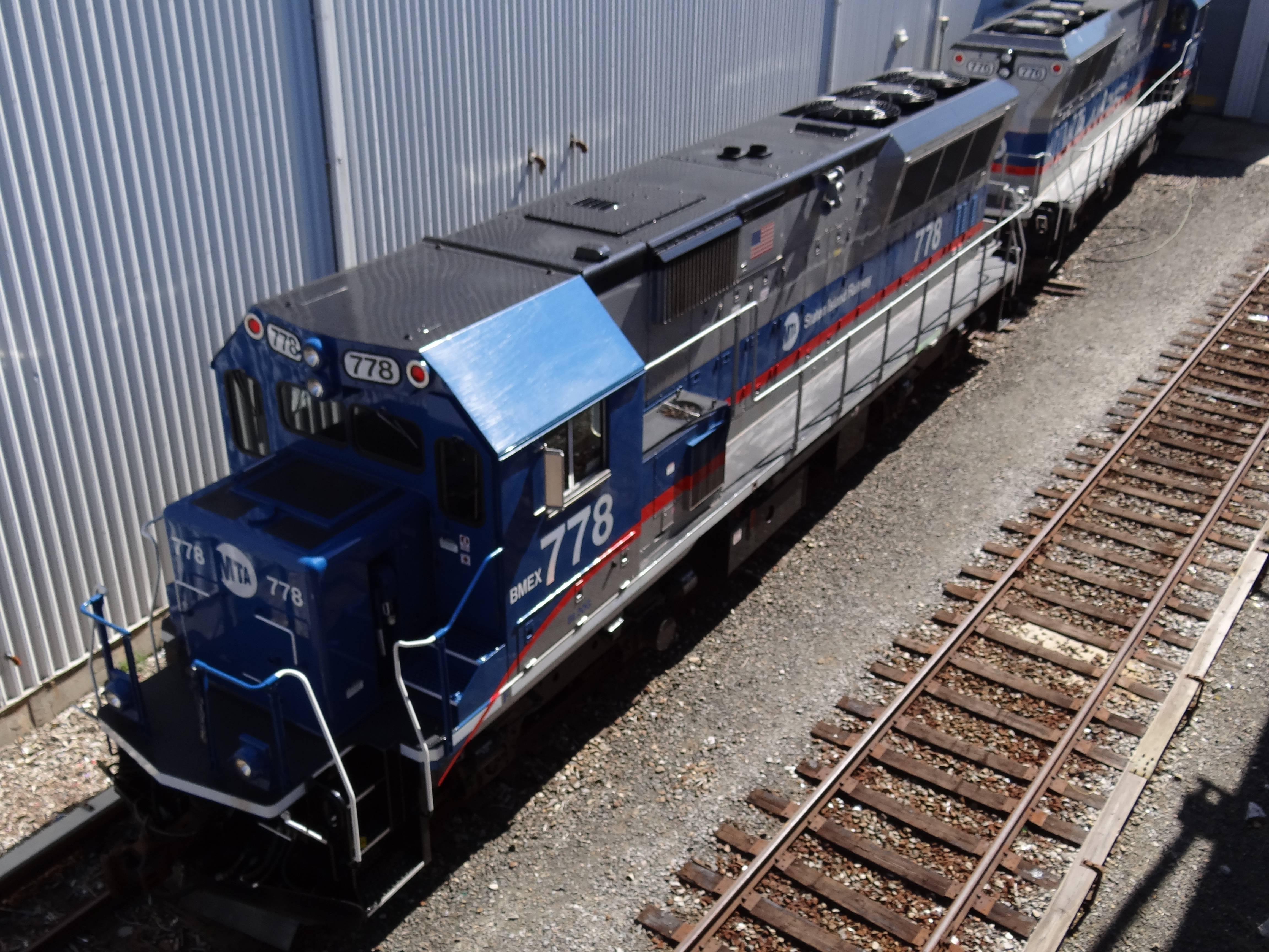 Who gets to ride on this train?!? And what is it doing on Staten Island?